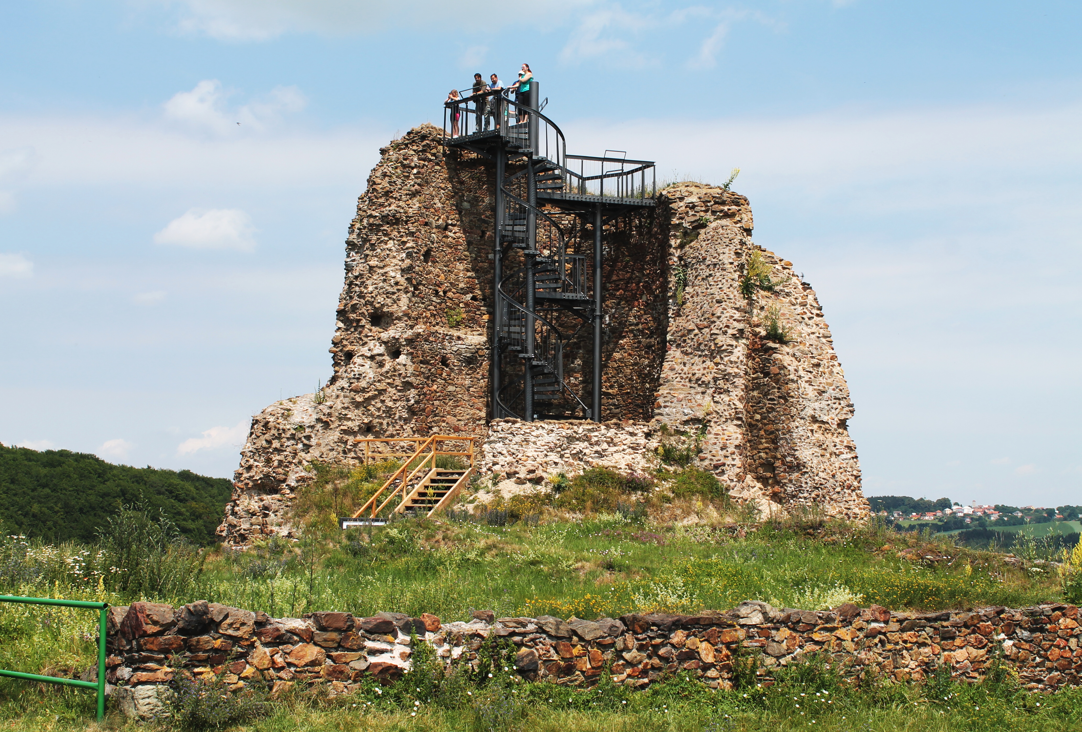 Lichnice Castle, Podhradí, Třemošnice, Chrudim District, Czech Republic